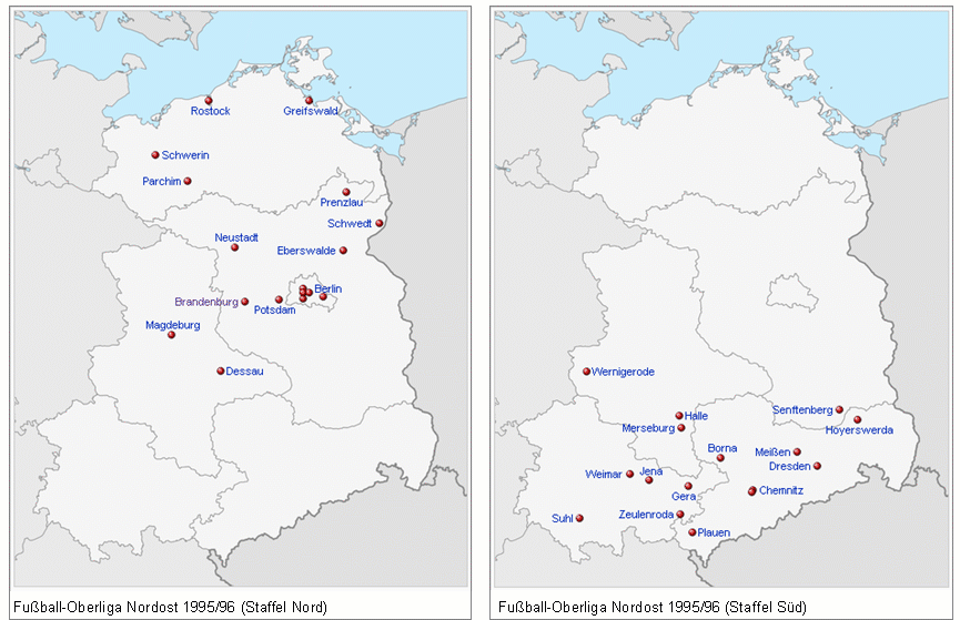 Map of New Länder with the borders of the federal states Equirectangular projection, N/S stretching 150 %.